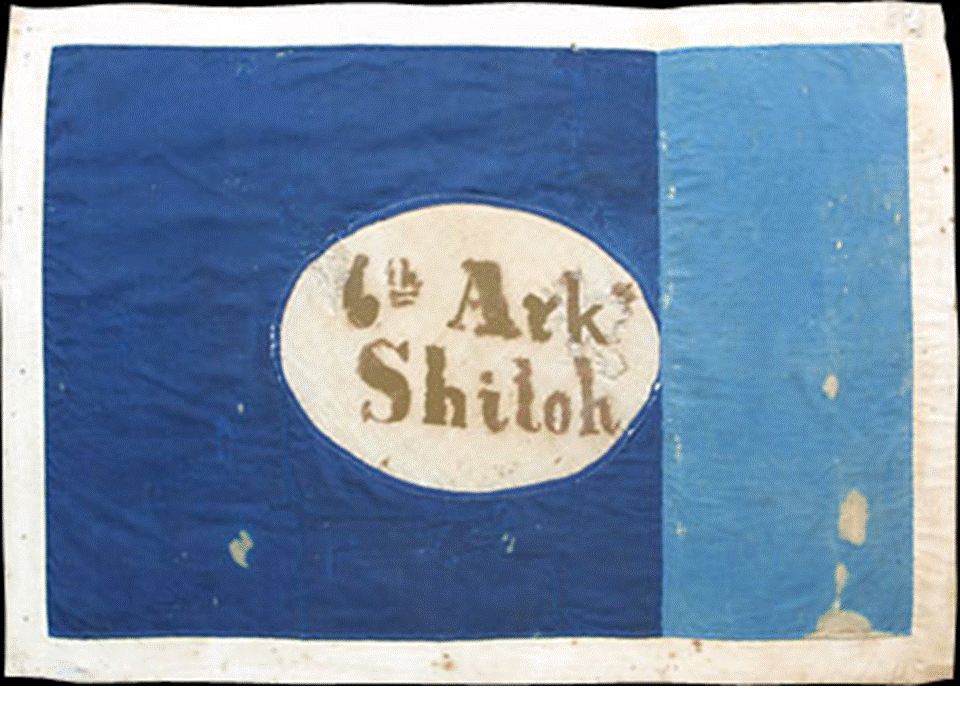 Flag, Confederate - 6th Reg. Arkansas Vols., Old State House Museum Collection. Note: The earliest flag known for the 6th Arkansas is a 1st pattern Hardee (Buckner) battle flag- 28" x 38", no white border on three sides, only 2" white border on staff edge. (See Battle Flags of the Confederate Army of Tennessee, p. 55) This flag is in the collections of the Smithsonian Institution in Washington, DC; accession no. 18342. This flag (according to its file card) "was made by a soldier of the Sixth Arkansas, from remnants of blue and white shirts." The blue field is extensively pieced.